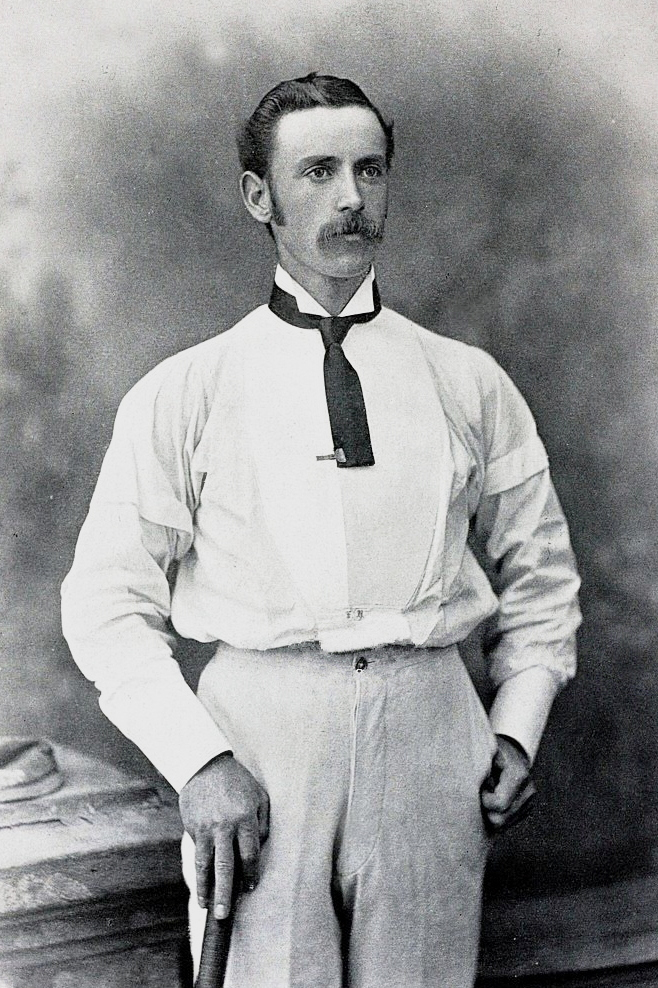 Sport, Cricket, Circa 1895, Frank Hearne, Kent, (1879-1889) and Western Province in South Africa